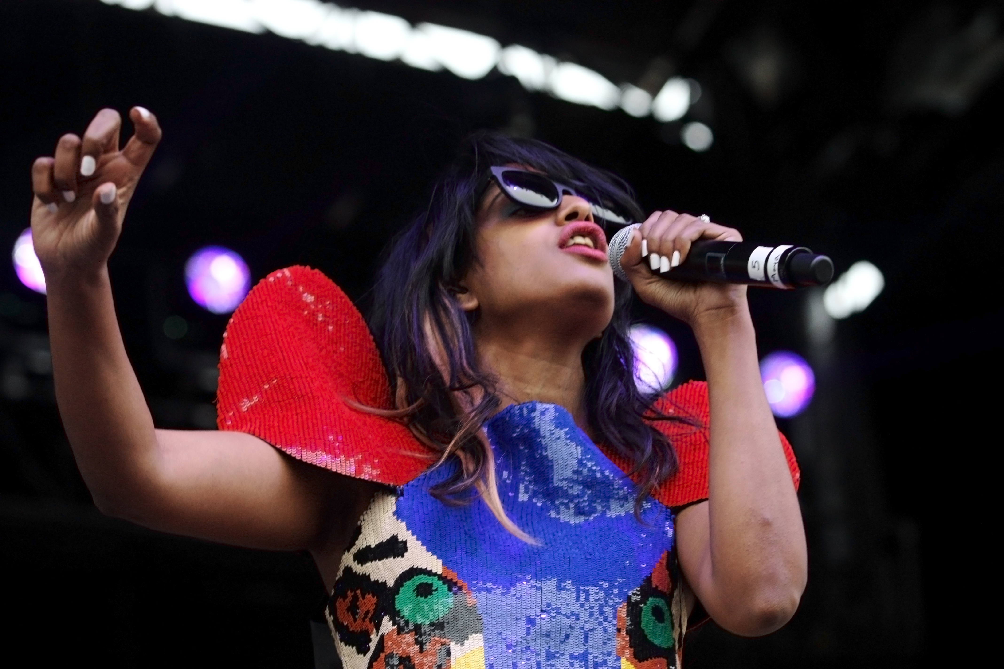 M.I.A. performing at Outside Lands 2009